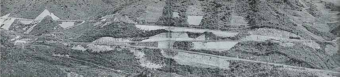 The switchback on the Kumgangsan Electric Railway line